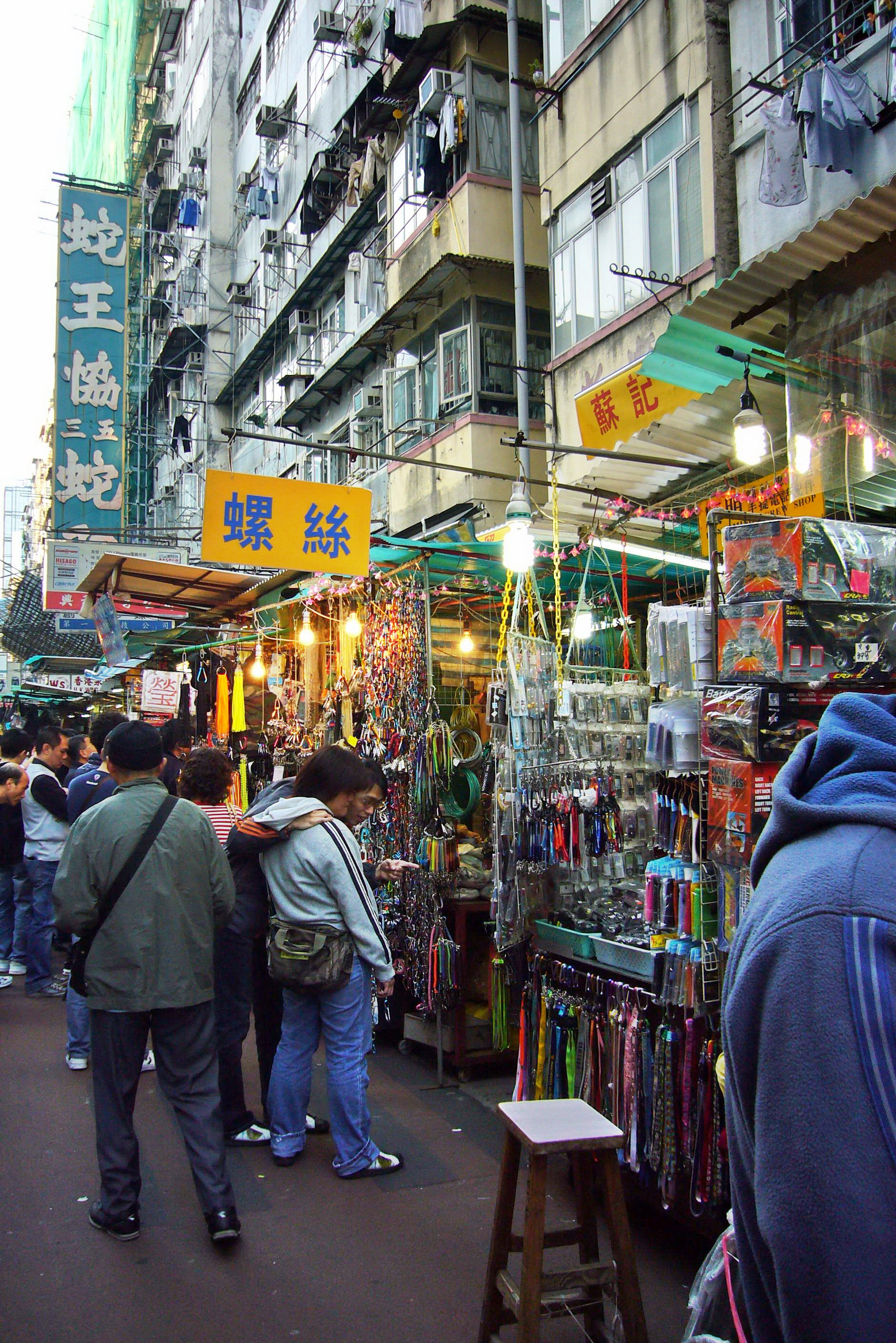 Apliu street screw shop 中文（香港）: 鴨寮街螺絲佬